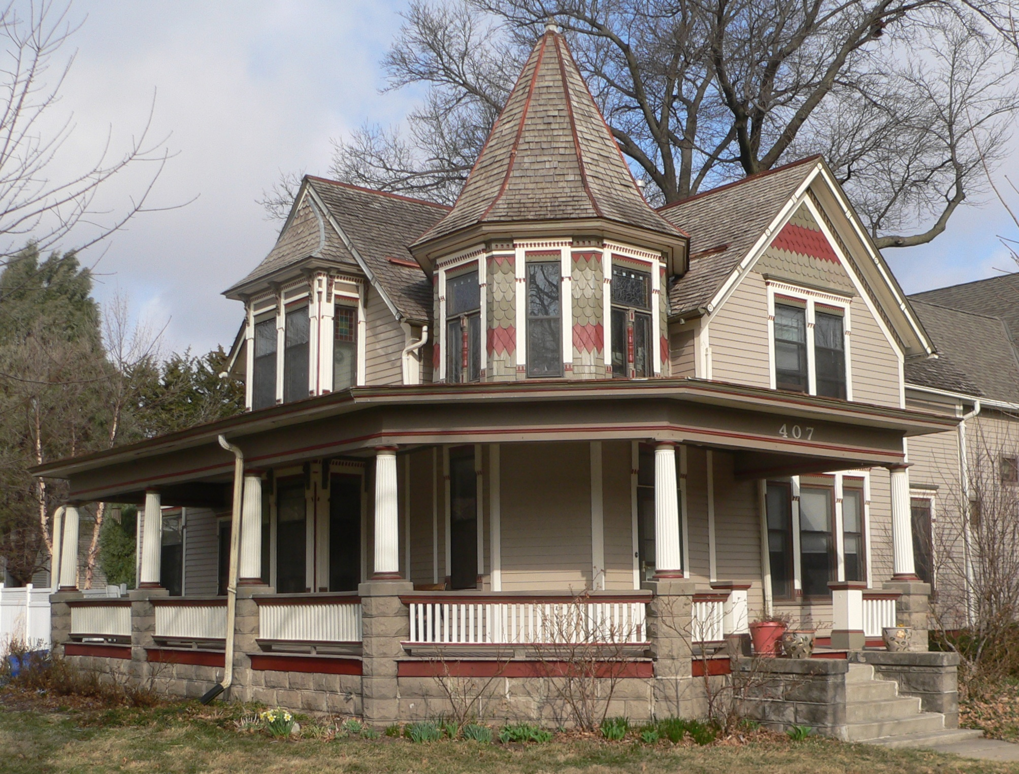 Royer-Williams house, located at 407 N. 26th Street in Lincoln, Nebraska; seen from the southeast.